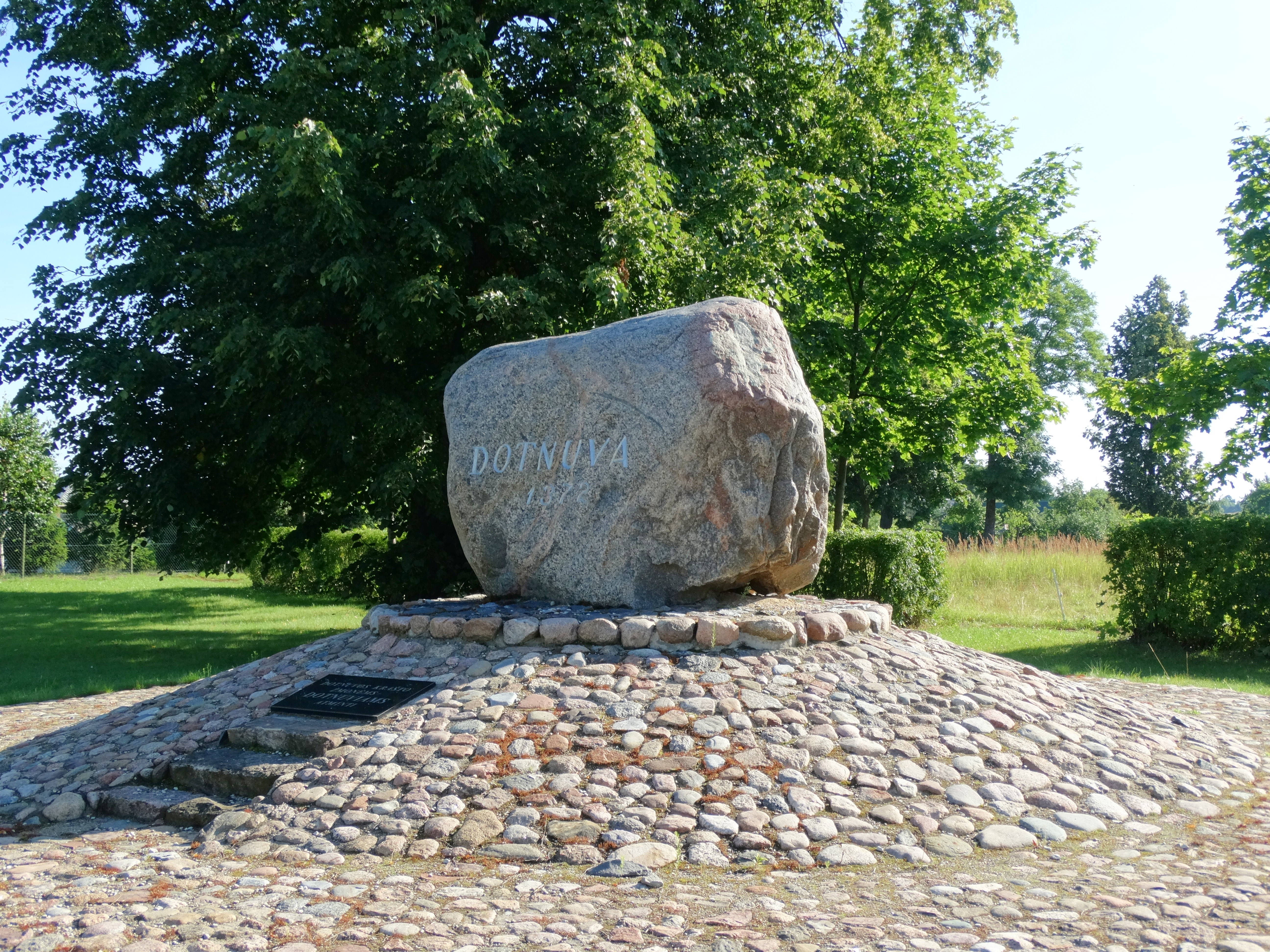 Inscribed stone, Dotnuva, Kėdainiai District, Lithuania